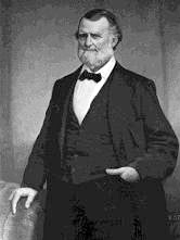 Source: NEW HAMPSHIRE DIVISION OF HISTORICAL RESOURCES This was photographed in the 19th century so the copyright expired.